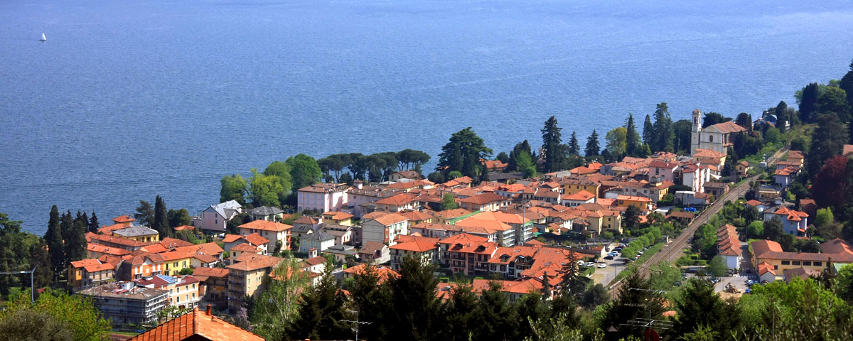 Panorama of Meina, Novara, Italy